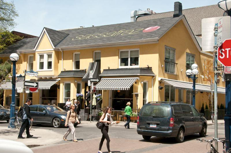 Sassafraz, a popular restaurant in Toronto's Yorkville neighbourhood. Toronto, Ontario, Canada.